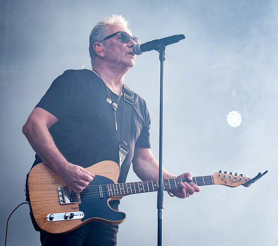 Åge Aleksandersen and Sambandet at the main stage during Stavernfestivalen in Stavern on 08. July 2016. Lineup:Åge Aleksandersen (guitar / vocal)Skjalg Raaen (guitar)Steinar Krokstad (drums)Morten Skaget (bass)Gunnar Pedersen (guitar)Terje Tranaas (keyboard)Bjørn Røstad (baritone saxophone)Unidentified (trumpet)Unidentified (trombone)Unidentified (tenor saxophone)